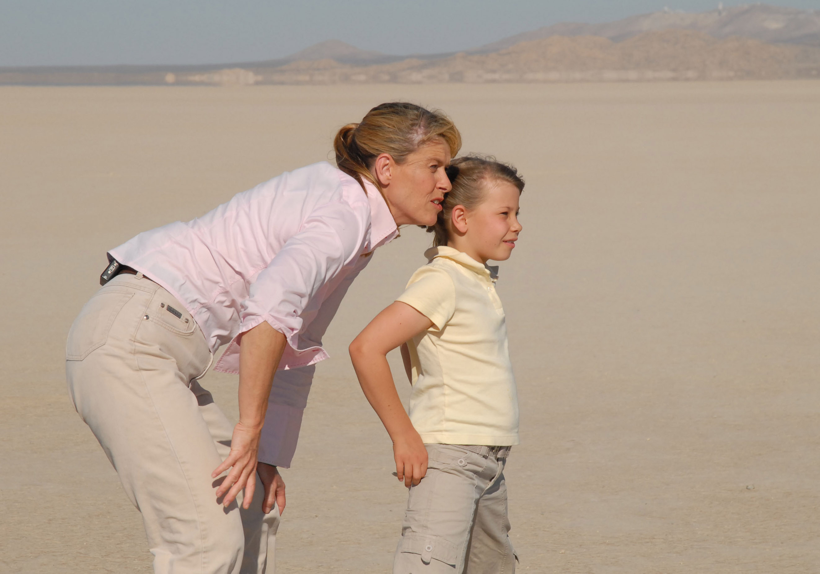 EDWARDS AIR FORCE BASE, Calif. -- Terri and Bindi Irwin gaze across the Rogers Dry Lake here after watching a C-17 Globemaster approach the flightline. Terri and Bindi visited Edwards on Sept. 6 to film a segment for their television show "Bindi the Jungle Girl." The program airs on the Discovery Kids channel.